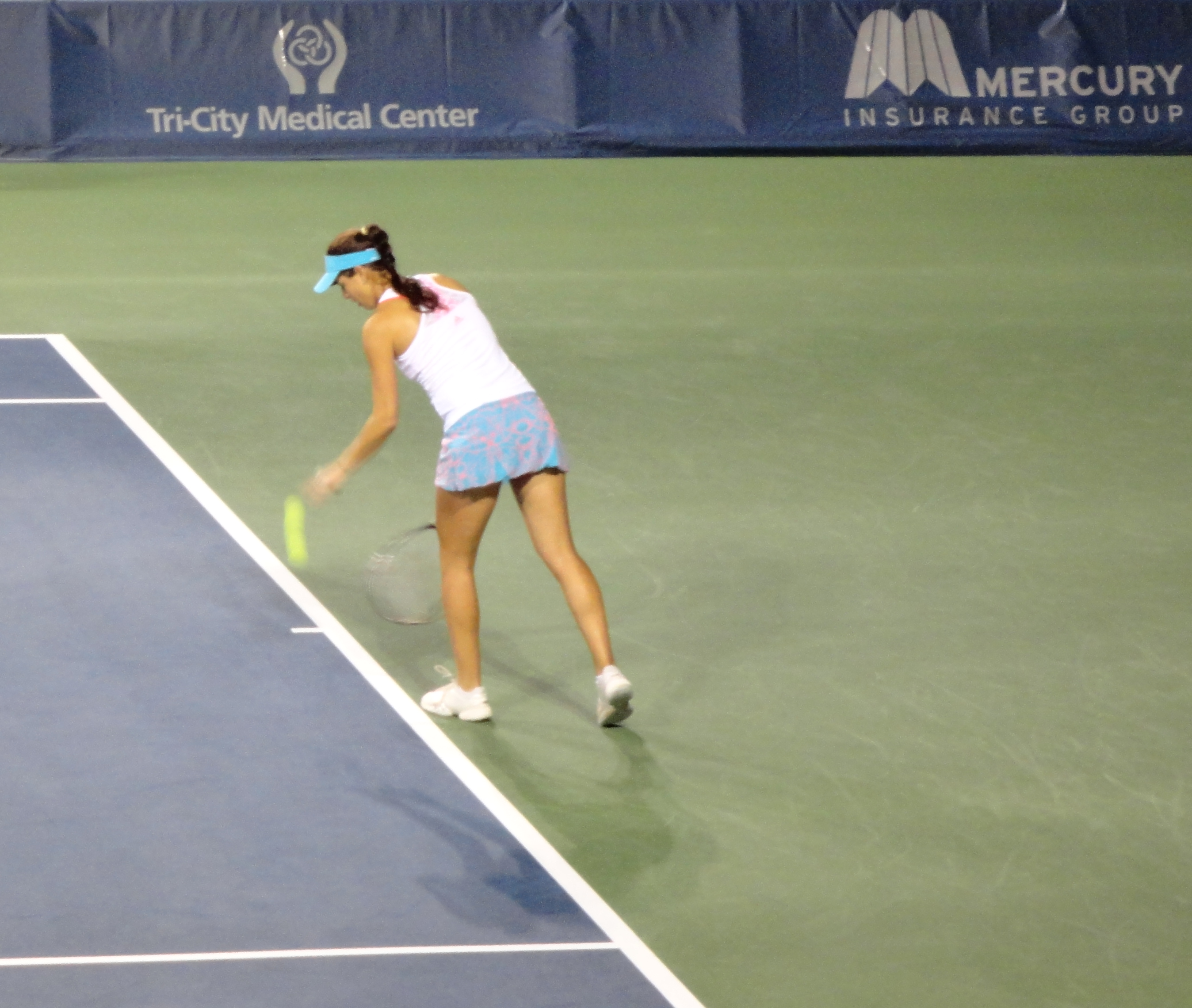 Sorana Cîrstea, professional tennis player of Romania. Sori playing first round match at Mercury Insurance Open 2011, Carlsbad (CA), USA (US Open Series)